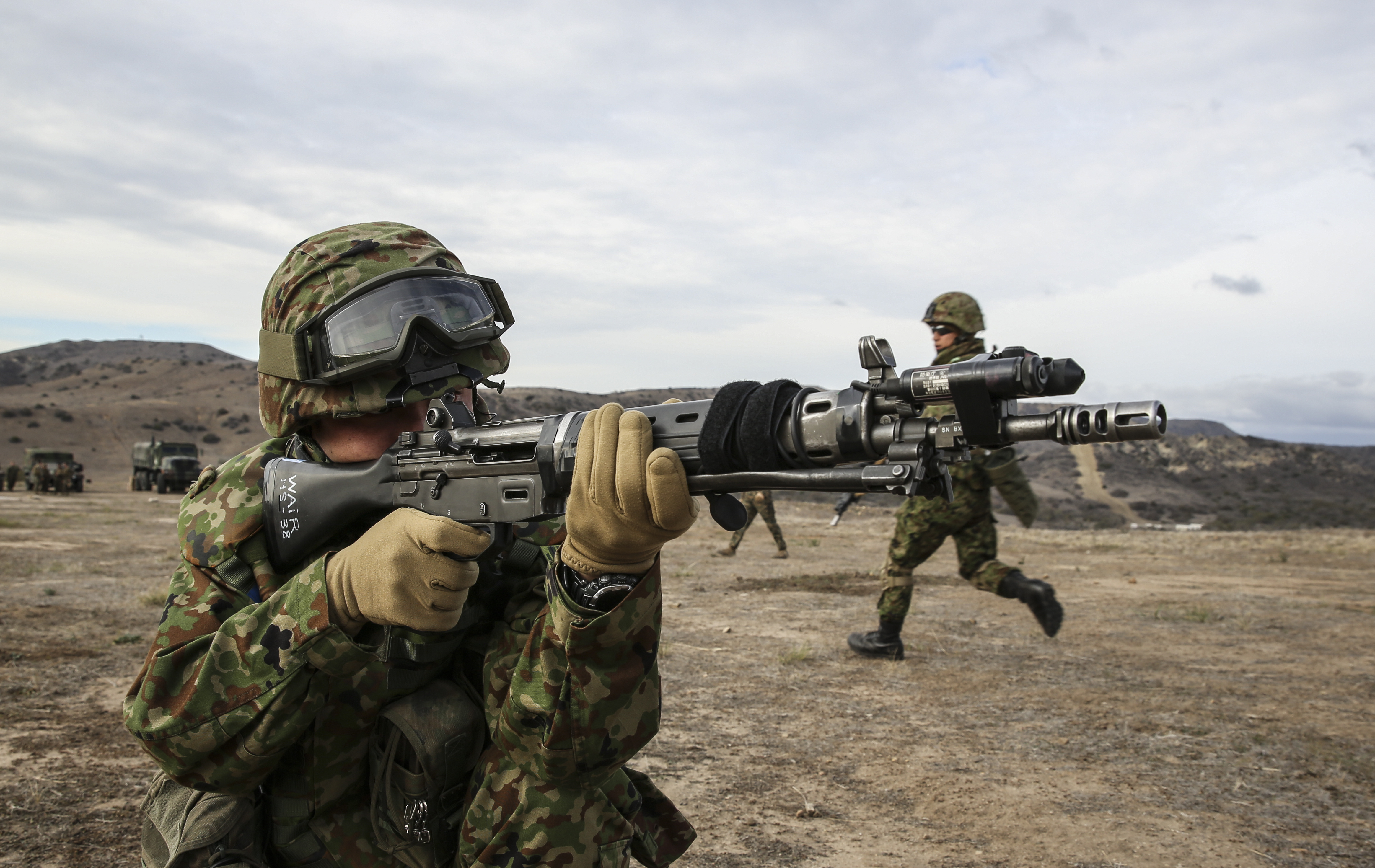 A soldier from the Japan Ground Self-Defense Force aims at a target while conducting immediate-action drills with 1st Reconnaissance Battalion, 1st Marine Division, during Exercise Iron Fist 2014 aboard Camp Pendleton, Calif., Feb. 4, 2014. Iron Fist is an amphibious exercise that brings together Marines and sailors from the 15th Marine Expeditionary Unit, other I Marine Expeditionary Force units, and soldiers from the JGSDF, to promote military interoperability and hone individual and small-unit skills through challenging, complex and realistic training. (U.S. Marine Corps photo by Cpl. Emmanuel Ramos/Released)